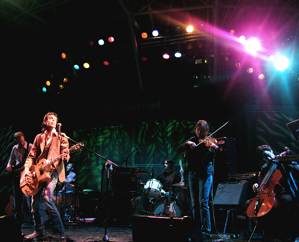 Do Make Say Think - Final Fantasy free Canada day show '07.justin the spotlight